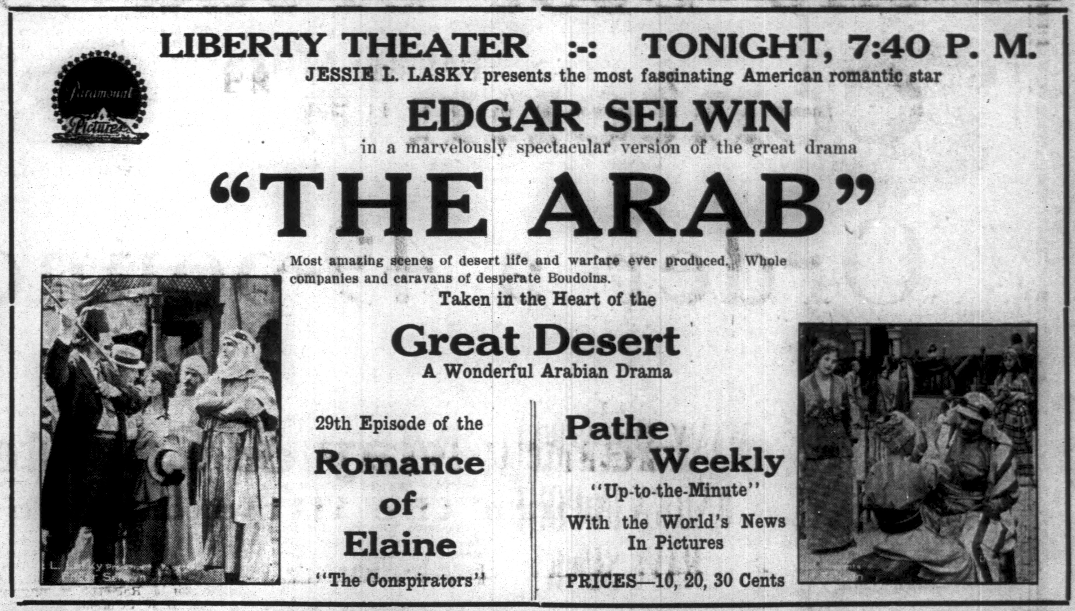 The Arab is a 1915 American silent adventure film directed by Cecil B. DeMille. This is a newspaper advert for the film.